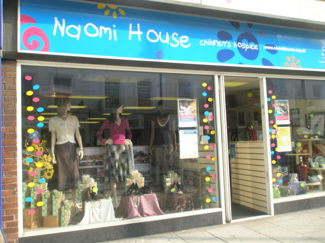 Charity shop in West Street (6)